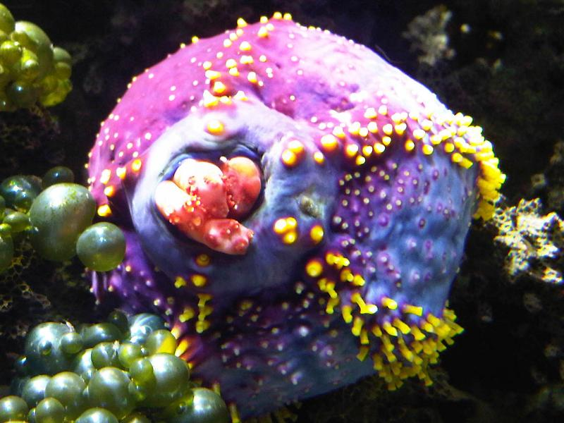 Pseudocolochirus violaceus at the Kew Gardens in Marine Display, England.